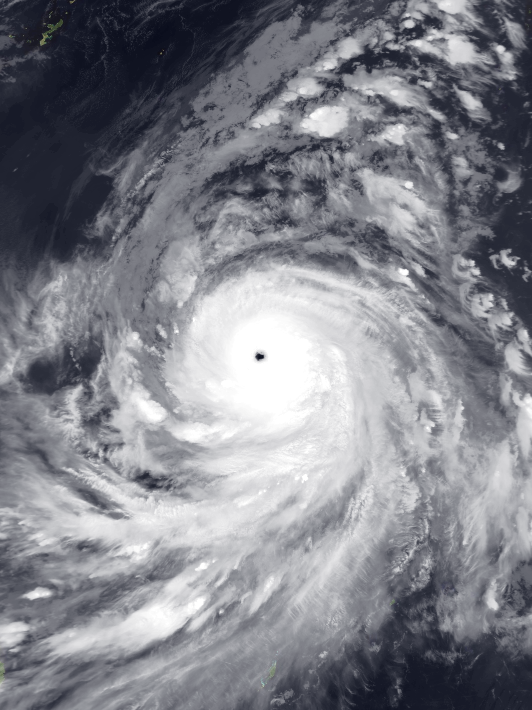 Typhoon Kong-rey near rapidly intensifying in the open Pacific on October 1